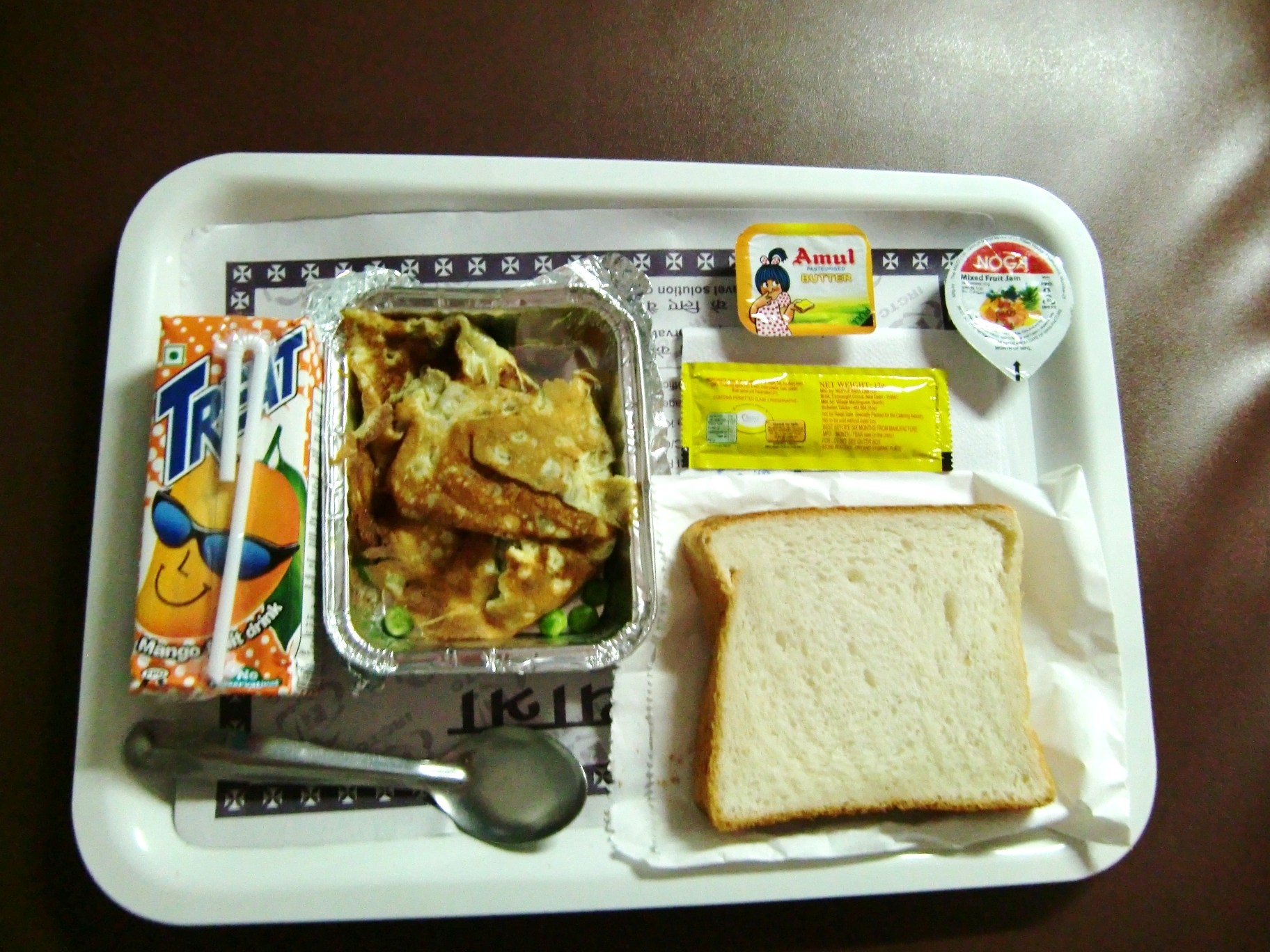 Breakfast for non-vegetarian on Rajdhani Express, India